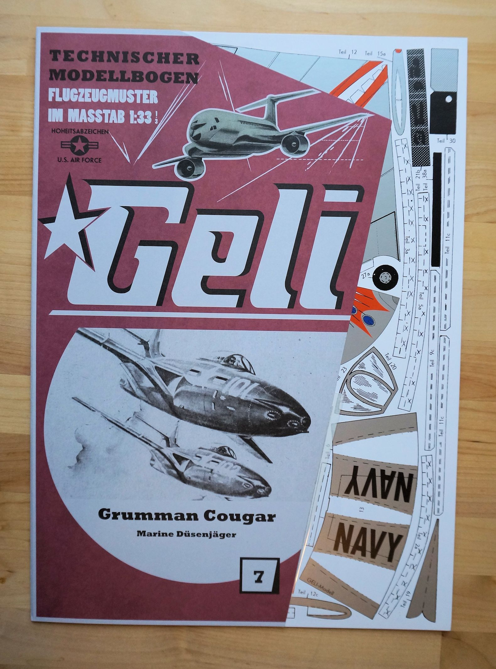 GELI Modellbau coversheet COUGAR